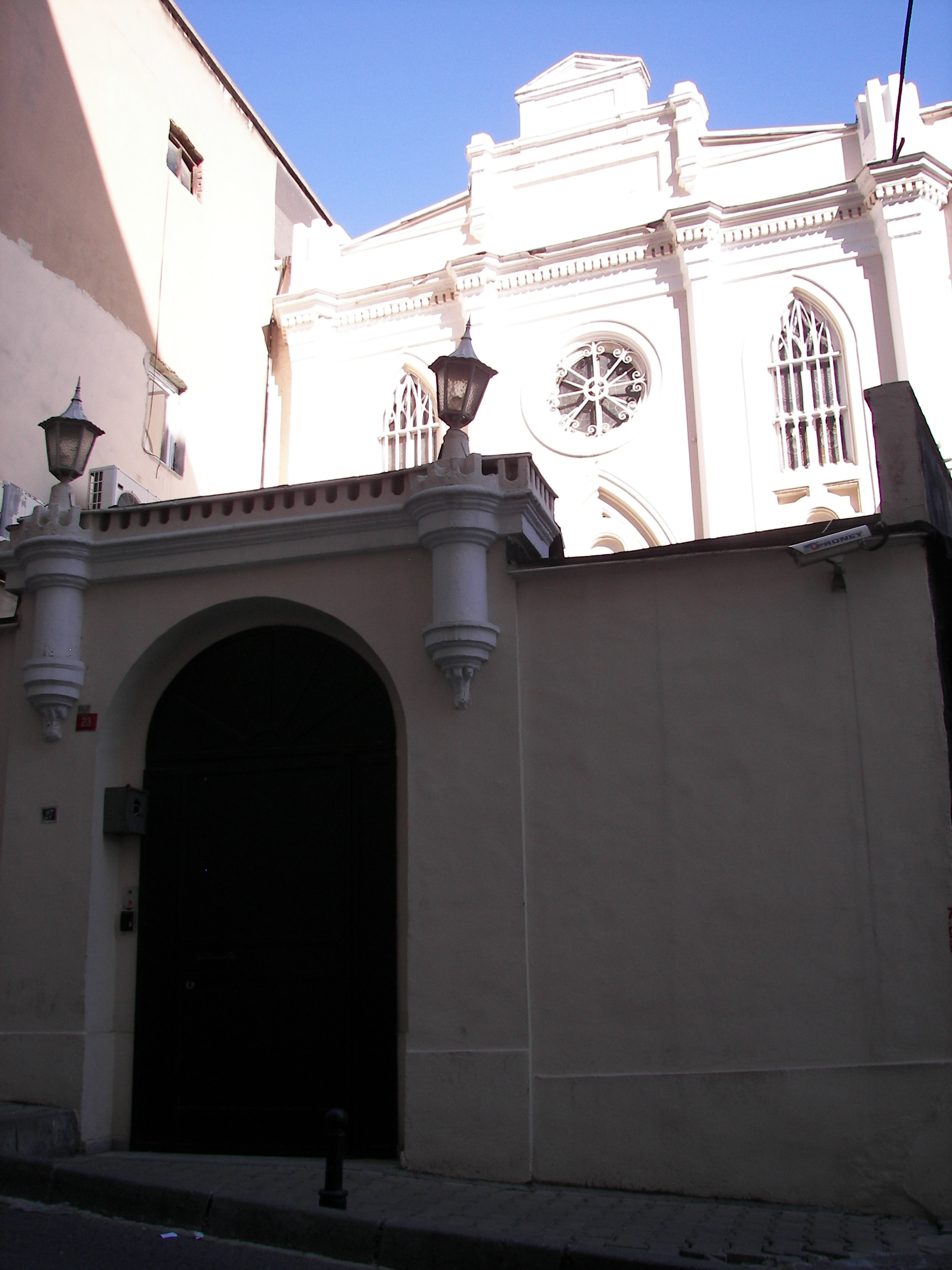 Italian synagogue